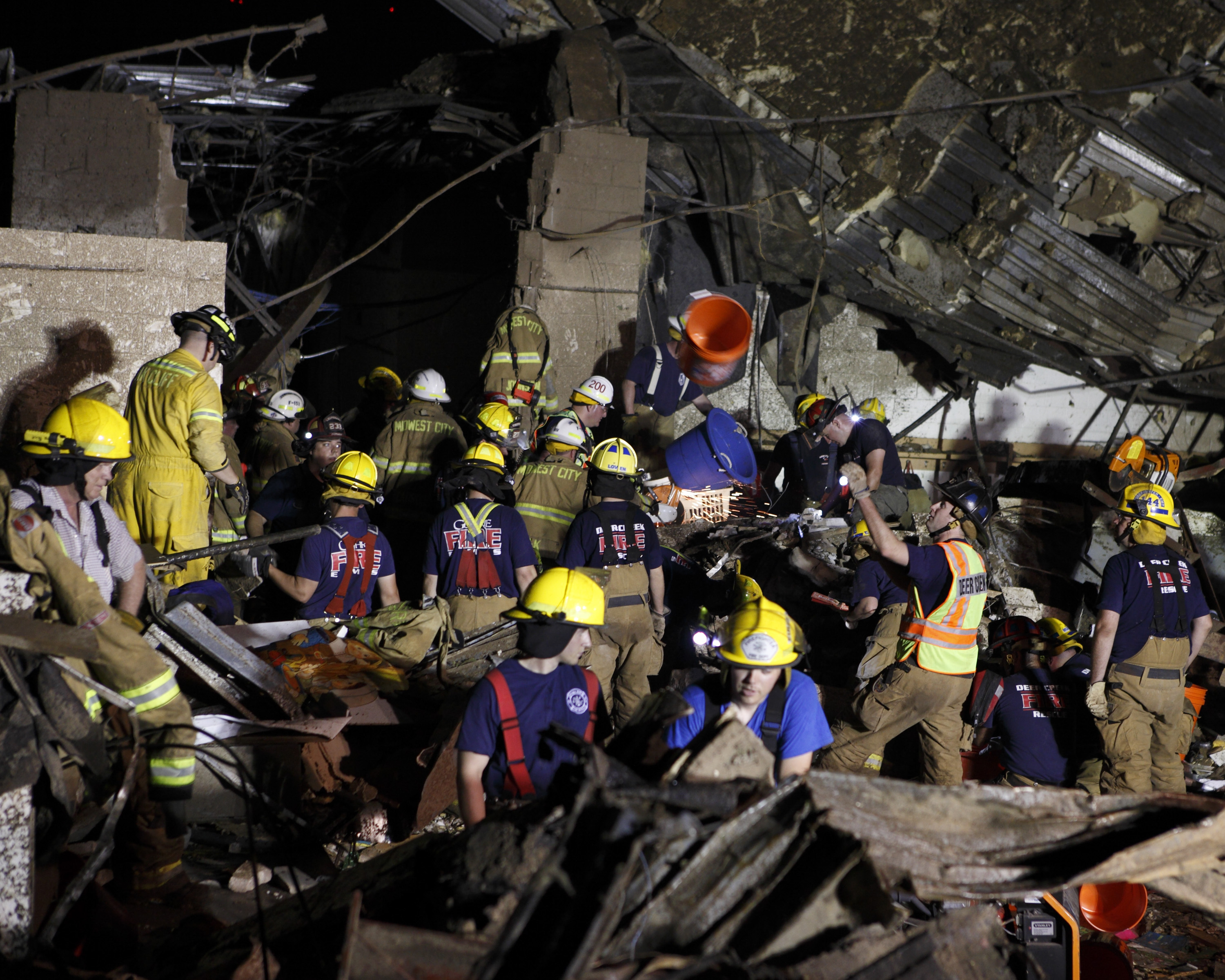 Oklahoma National Guard Soldiers and Airmen respond to a devastating tornado that ripped through Moore, Okla., May 20, 2013